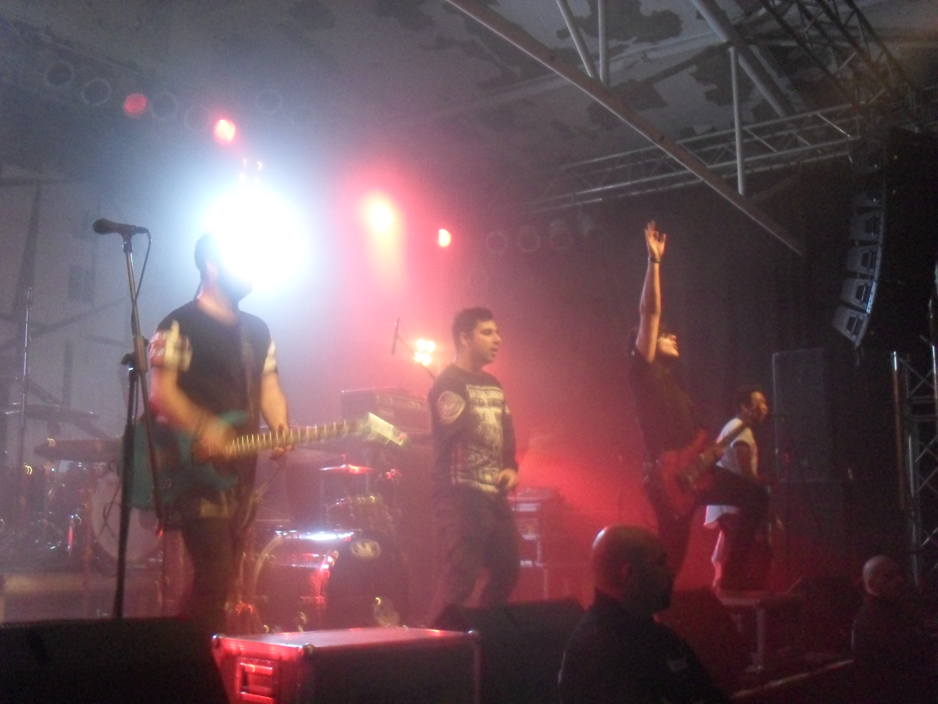 Palisades performing on the Silverstein Europe Tour in Cologne.